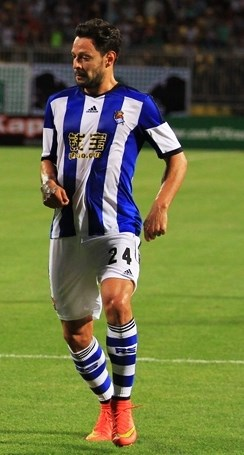 Alberto de la Bella